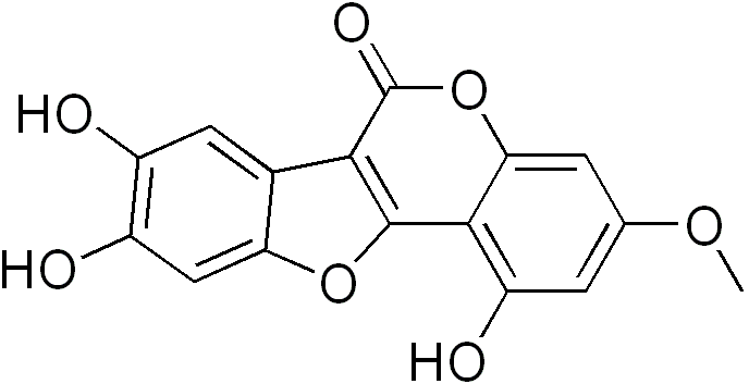 chemical structure of Wedelolactone